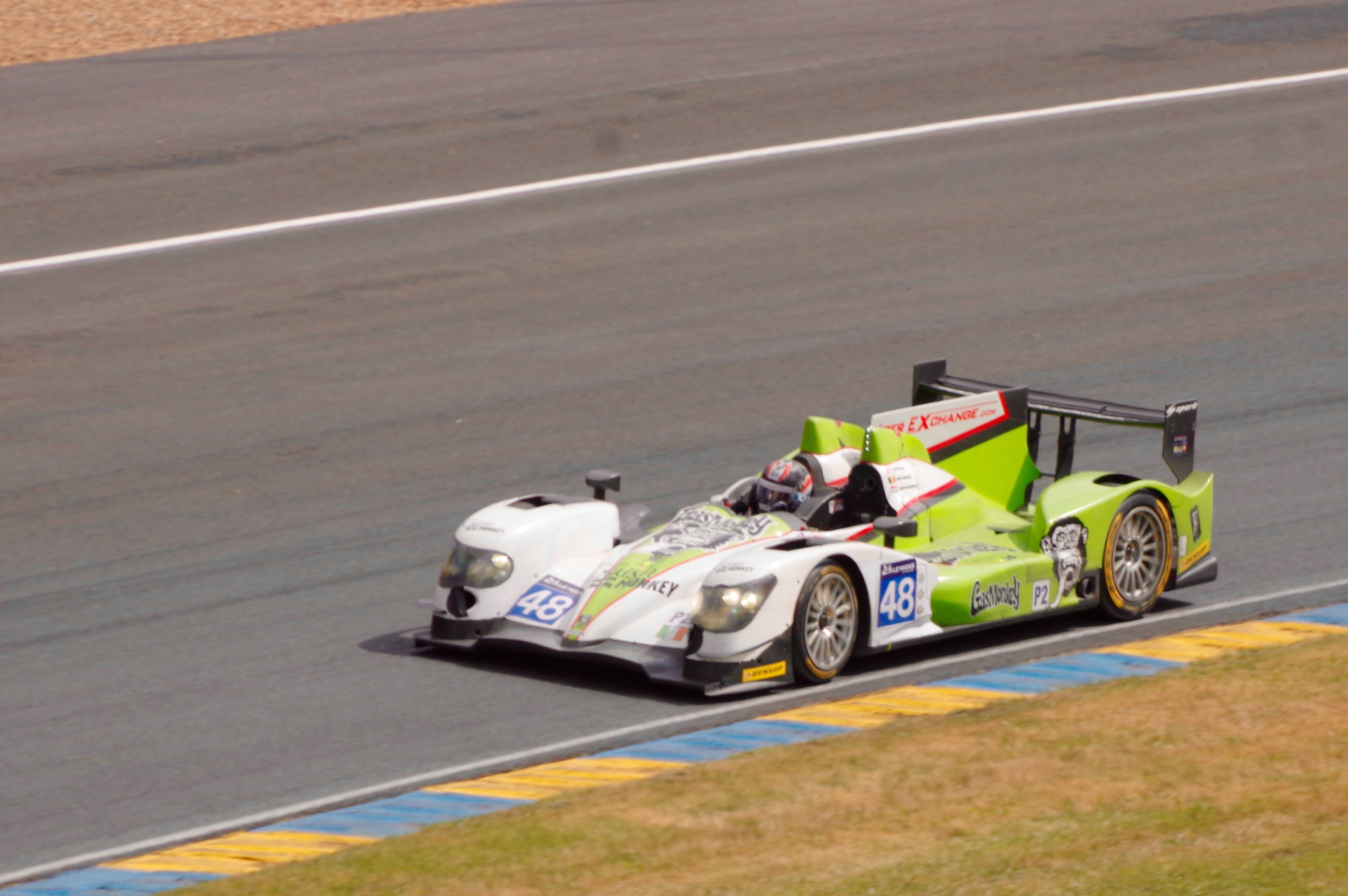 2016 24 HOurs of Le Mans - Murphy Prototypes's Oreca 03R Nissan Driven by Ben Keating, Marc Goossens and Jeroen Bleekemolen